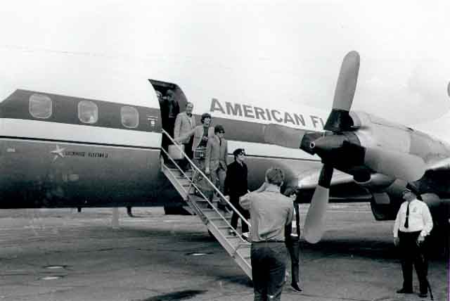 Featured on the Minnesota Historical Society’s Collections Up Close blog.